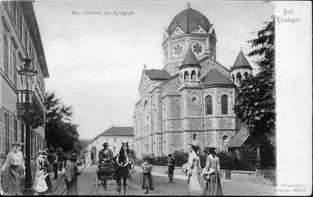 Synagogue of Bad Kissingen built in 1902; destroyed in 1938